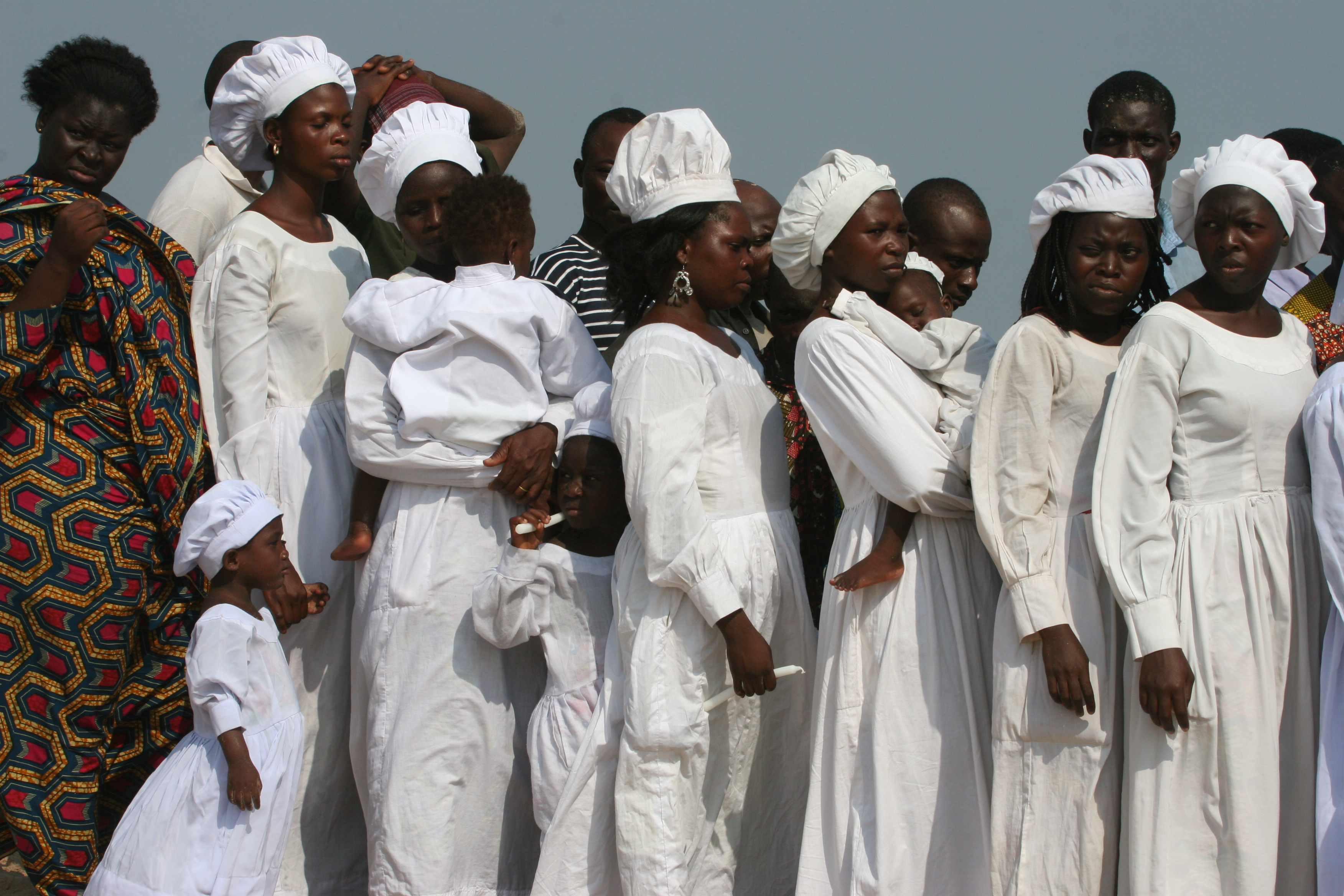 Celestial Church of Christ baptism ceremony, Cotonou, Benin